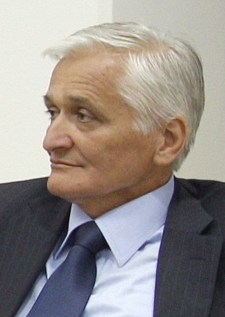 BiH, Banja Luka. Predsednik vlade Borut Pahor se je neformalno sestal s predsednikom vlade BiH Nikolo Spiricem. Predsednik vlade Borut Pahor in predsednik vlade BiH Nikola Spiric. Foto: Stanko Gruden/STA